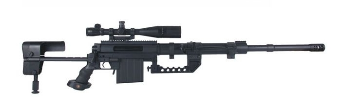 CheyTac Intervention sideview